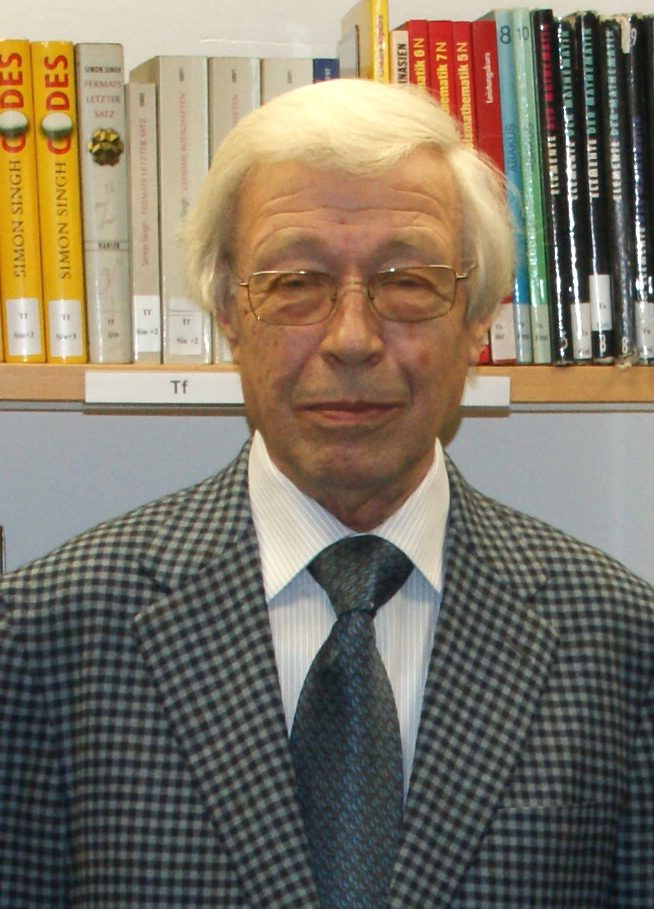 Johannes Brosseder, visit at the CJD Christophorusschule Königswinter